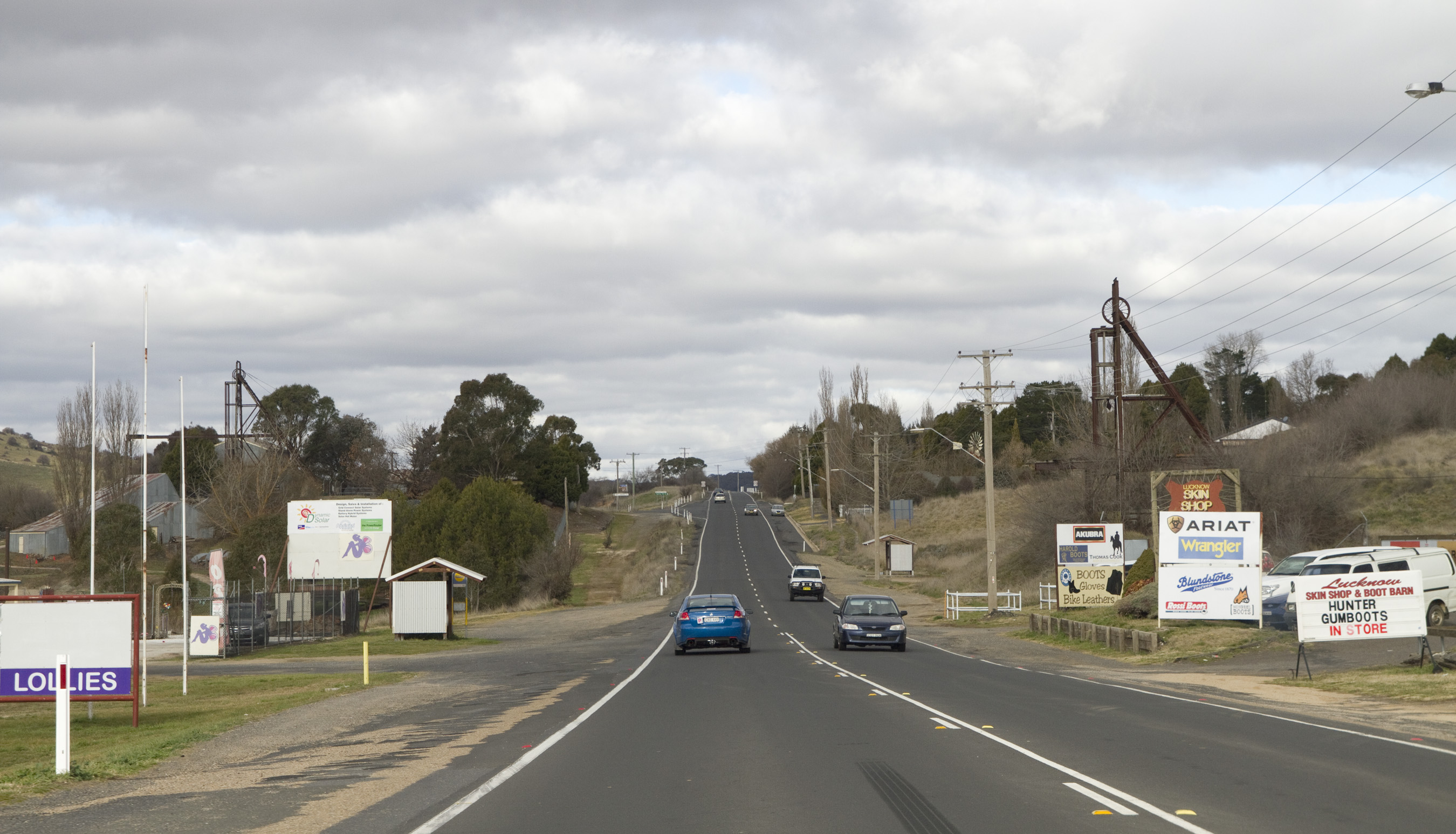 Lucknow NSW